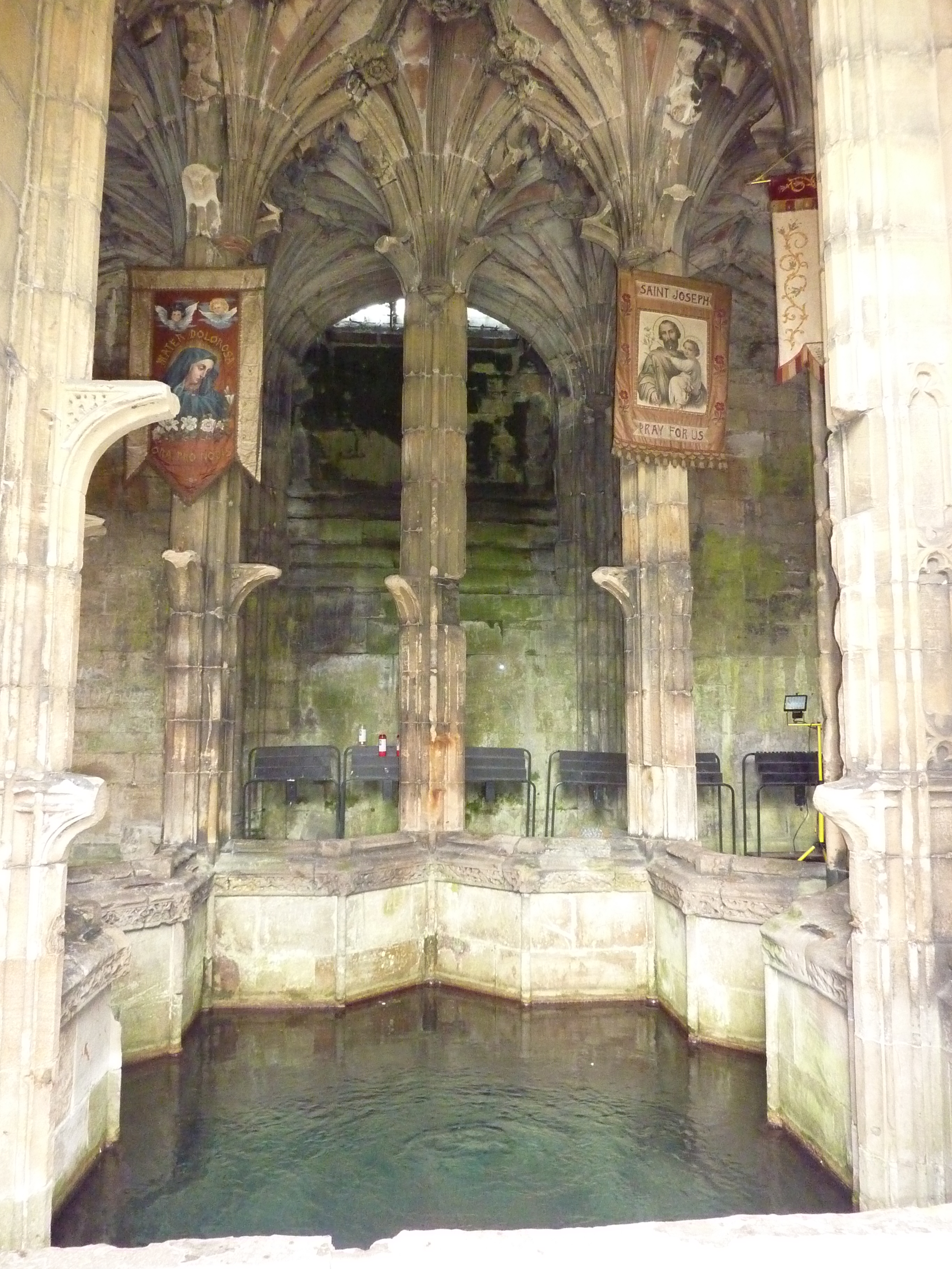 St Winefride's Well, a place of pilgrimage.